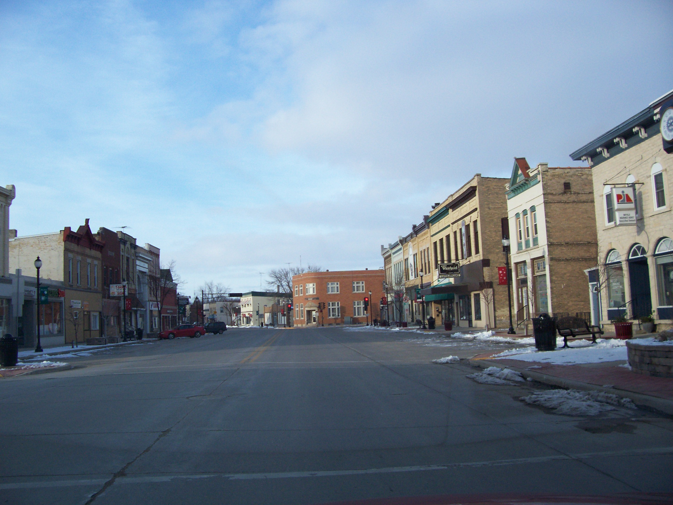 Looking north at downtown Mayville, Wisconsin on Wisconsin Highway 67 and Wisconsin Highway 28.